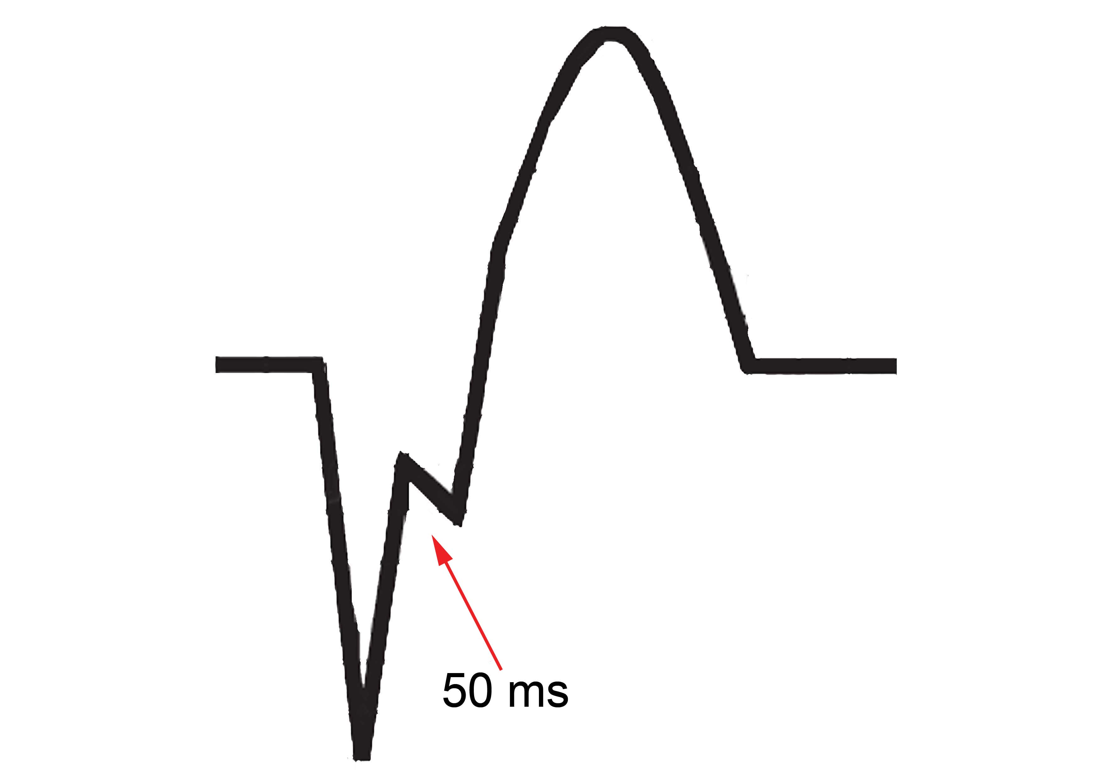 Left bundle branch block with Cabrera's sign (sign of old anterior myocardial infarction in pacemakerrhythm or left bundle branch block)